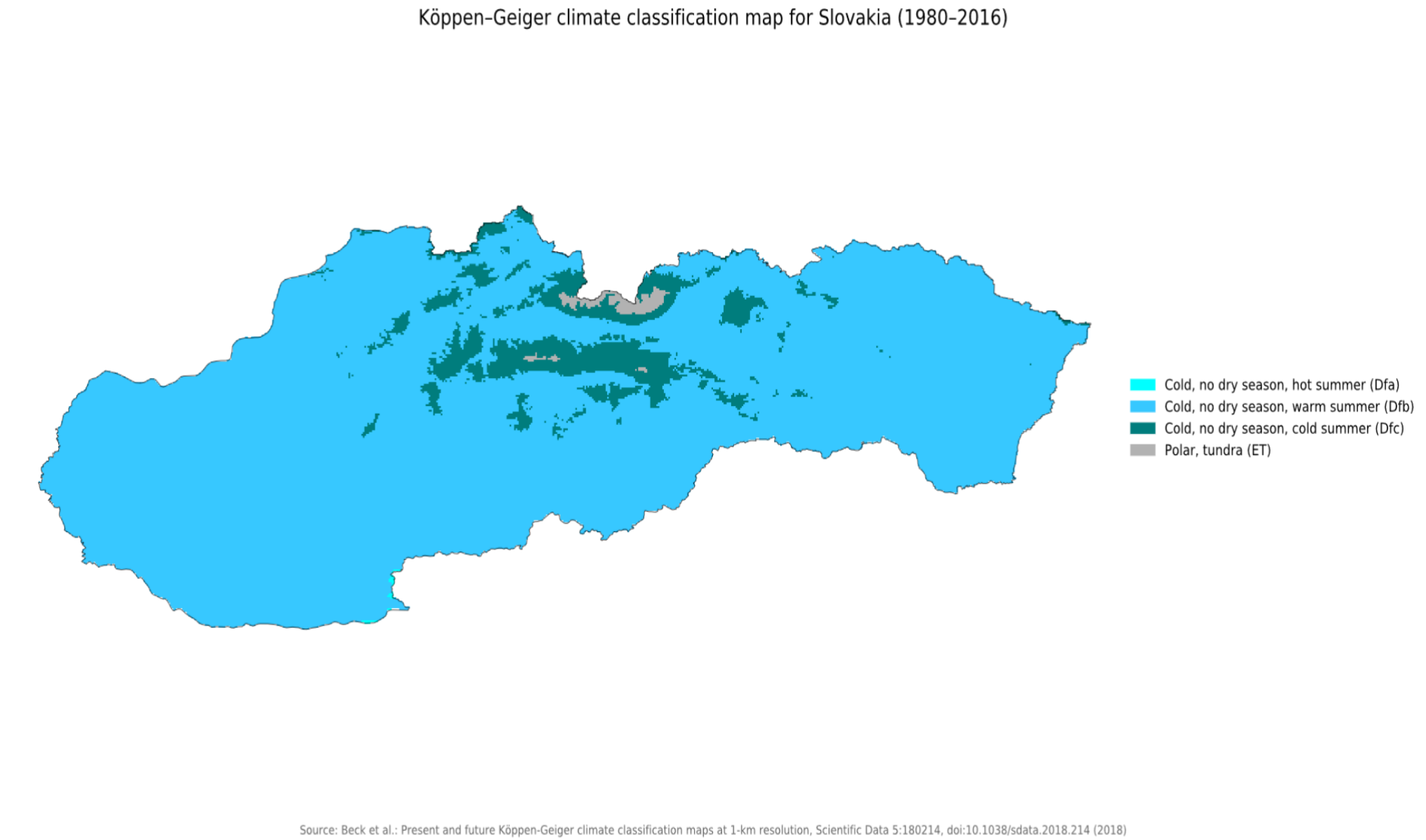 Köppen–Geiger climate classification map for Slovakia